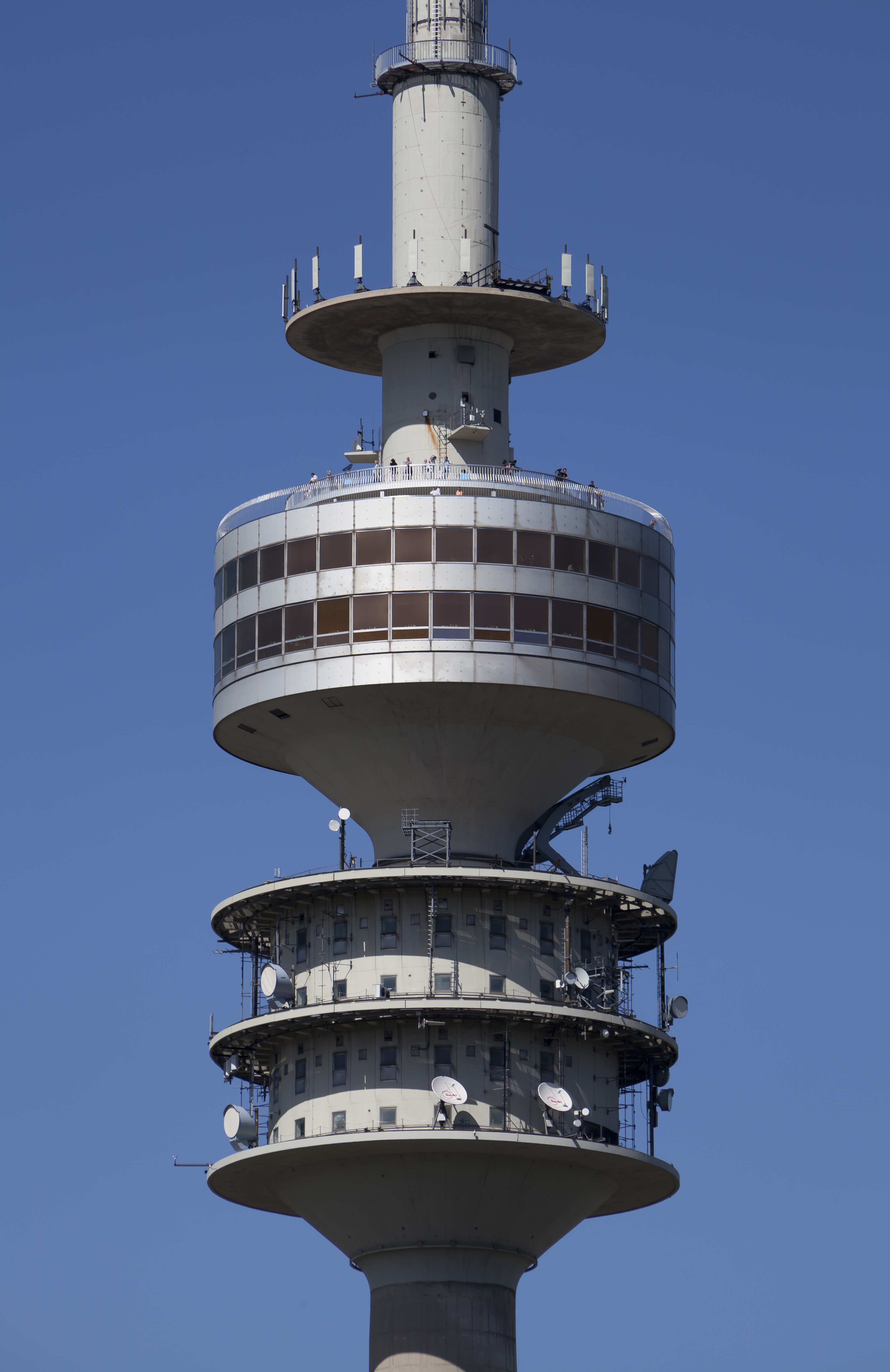 Olympiaturm, Munich, Germany